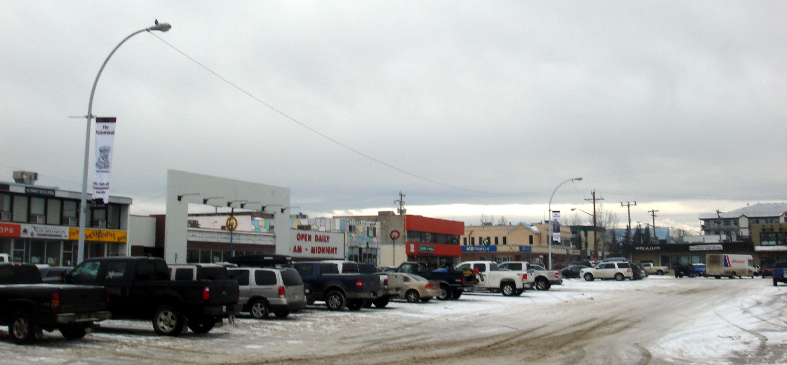 Downtown Hinton, Alberta, Canada